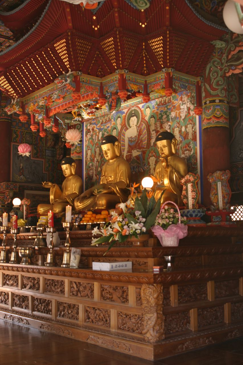 Korea-Changwon-Buddhist temple